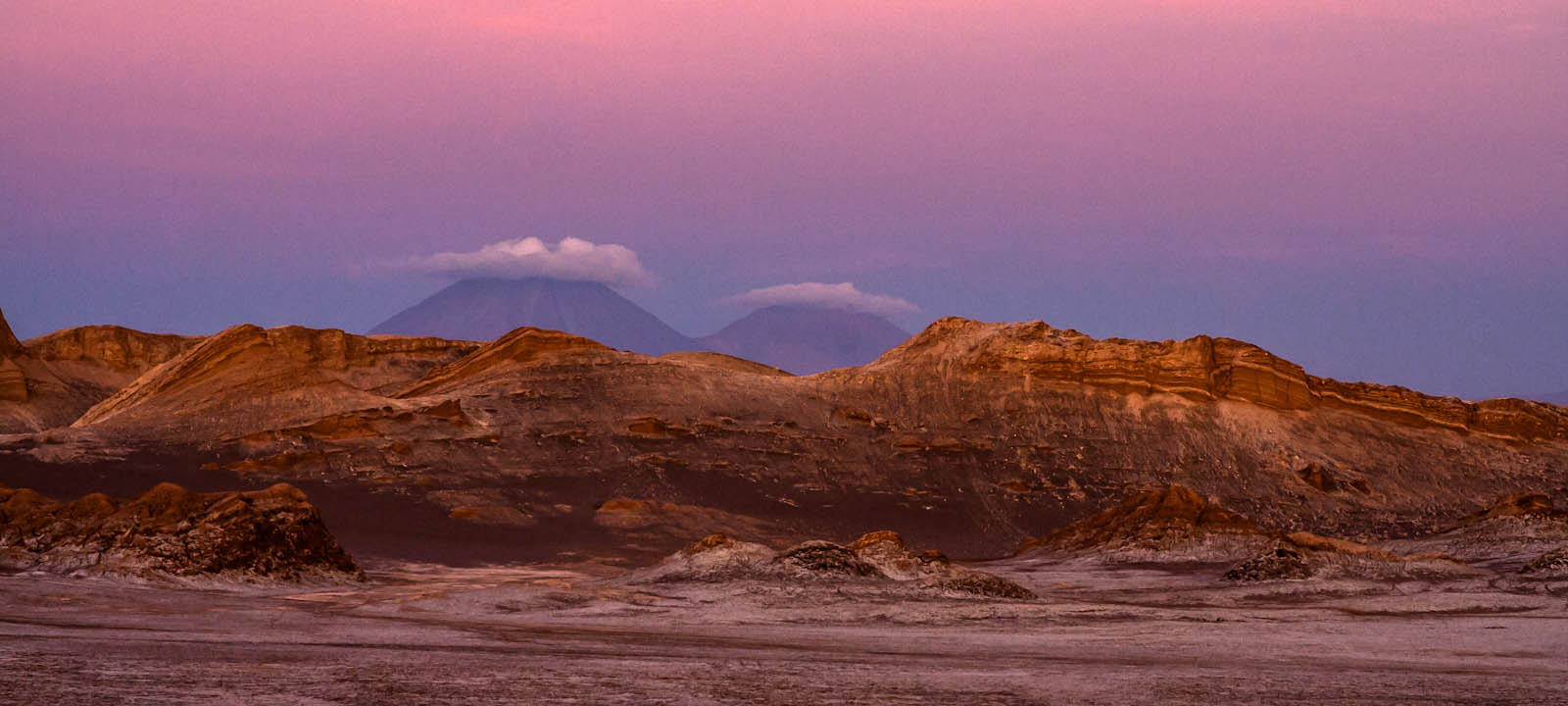 This is a photo of a national monument in Chile: 544